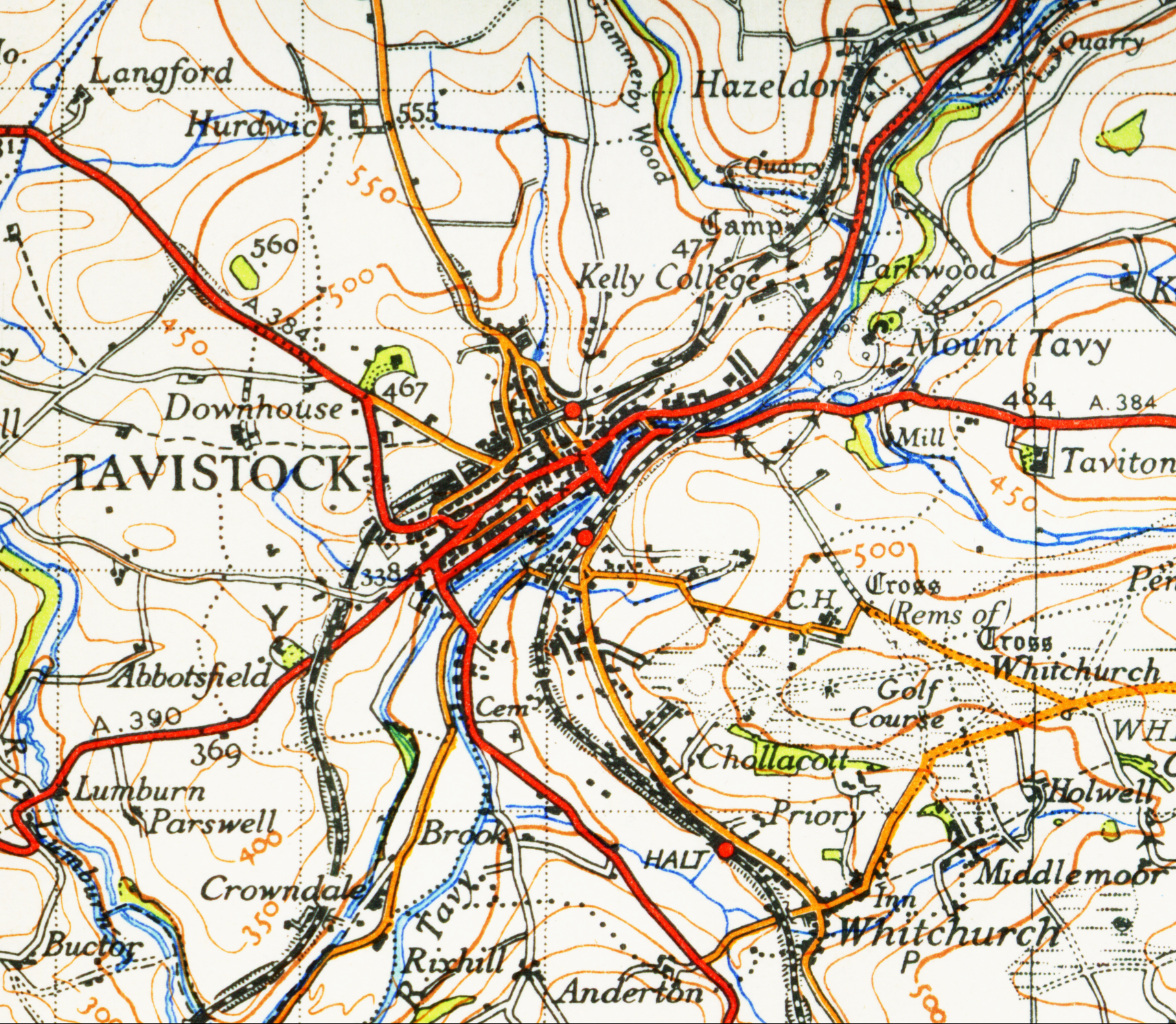 Map of Tavistock from 1946. Scale 1 inch to the mile 600DPI Sheet 175